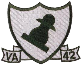 Insignia of the U.S. Navy Attack squadron 42 (VA-42) "Green Pawns". The insignia for VA-42, the green pawn, was originally approved by the U.S. Navy Chief of Naval Operations (CNO) for Bombing and Fighting Squadron 75 (VBF-75) on 28 October 1946. When a new Fighting Squadron 42 (VF-42) was established on 1 September 1950 they adopted the green pawn insignia that had been used by the former VF-42. In 1953, the insignia was carried over to VA-42 following its redesignation from VF-42.